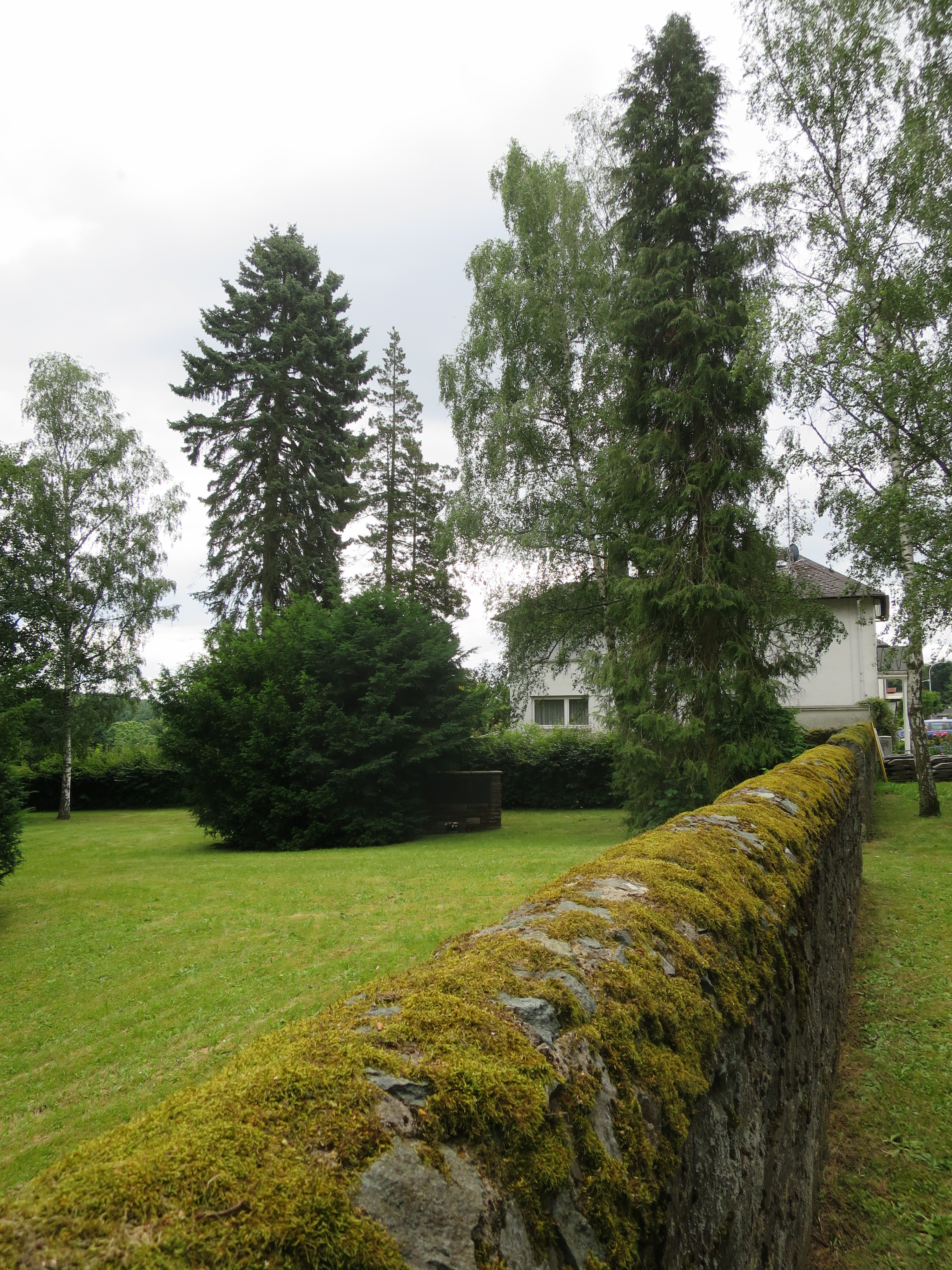 Prisoners of war cemetery in Wetzlar-Büblingshausen